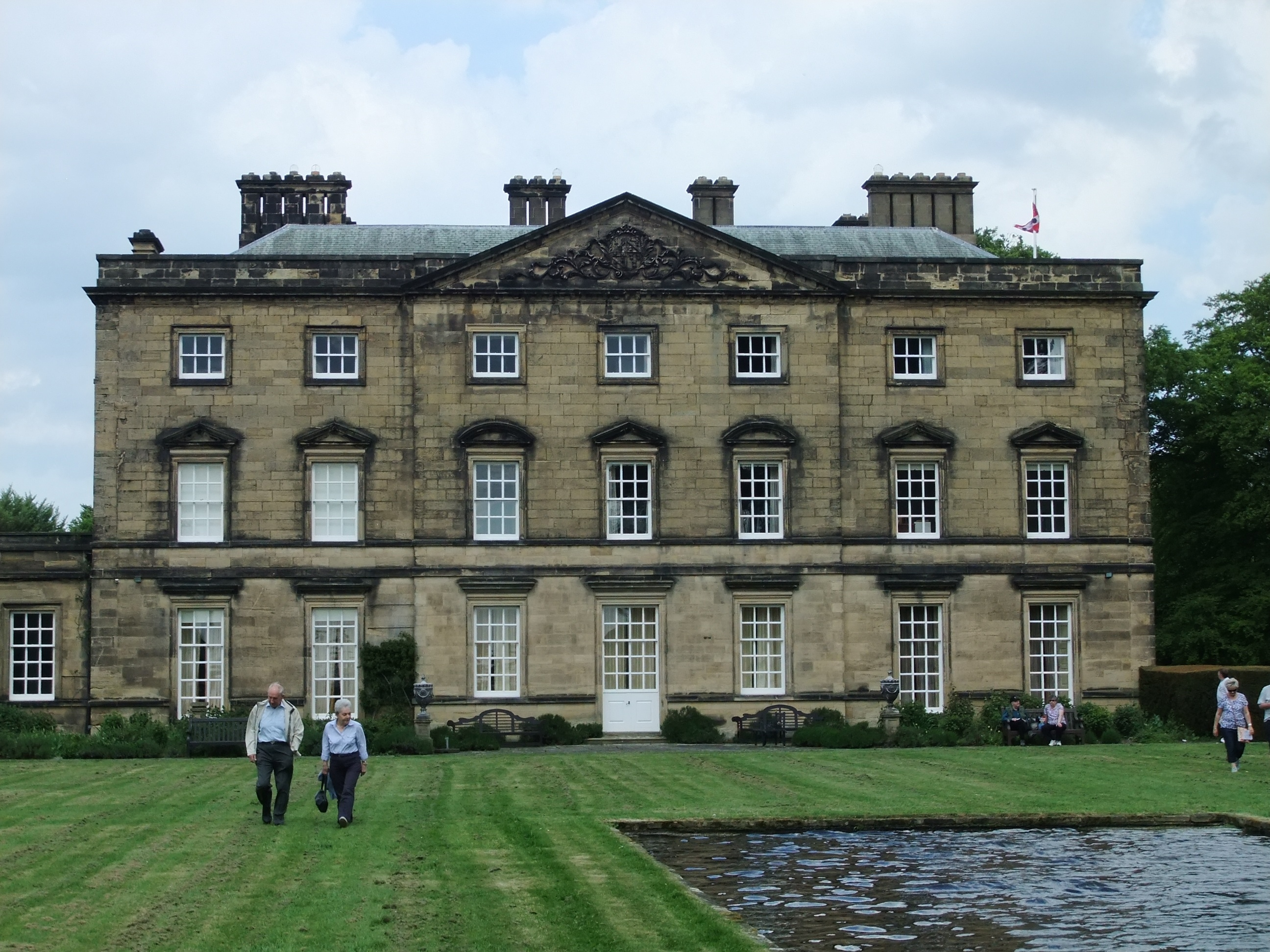 Long lake and the house - Blagdon Hall Estate, Blagdon, NorthumberlandBlagdon Hall Estate, Blagdon, Northumberland